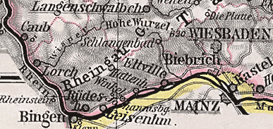 Detail from a map of Hesse.